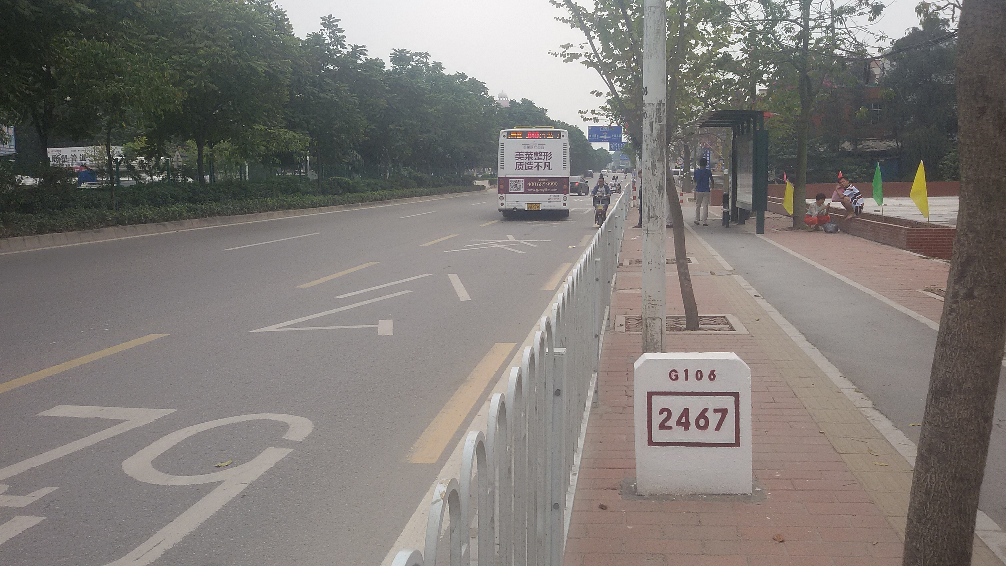 China National Highway 106, at 2467 km marker